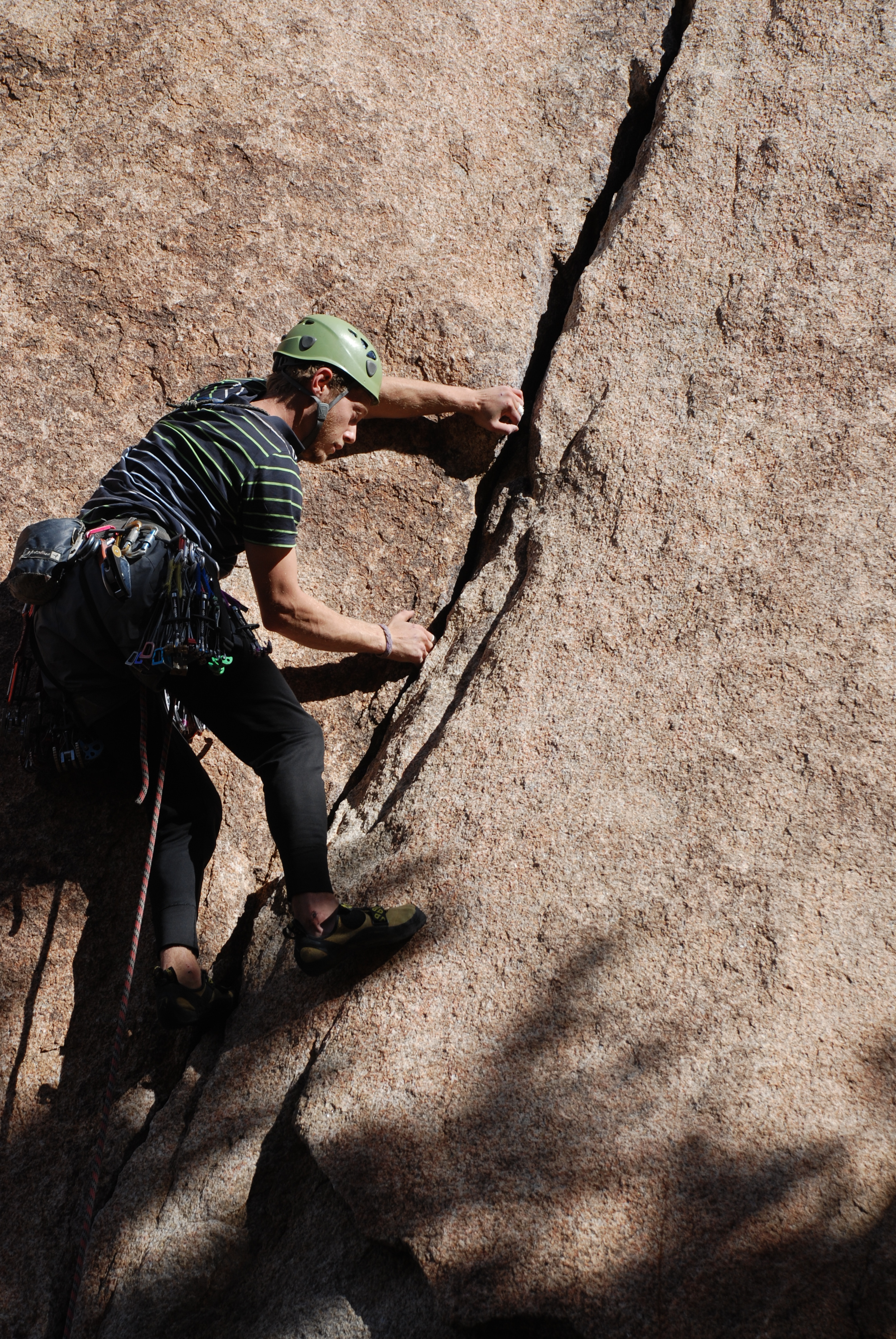 Joshua Tree National Park: Climbing Illusion Dweller 5.10b route on The Sentinel Rock at The Real Hidden Valey.